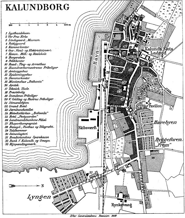 Map of Kalundborg, Denmark 1919